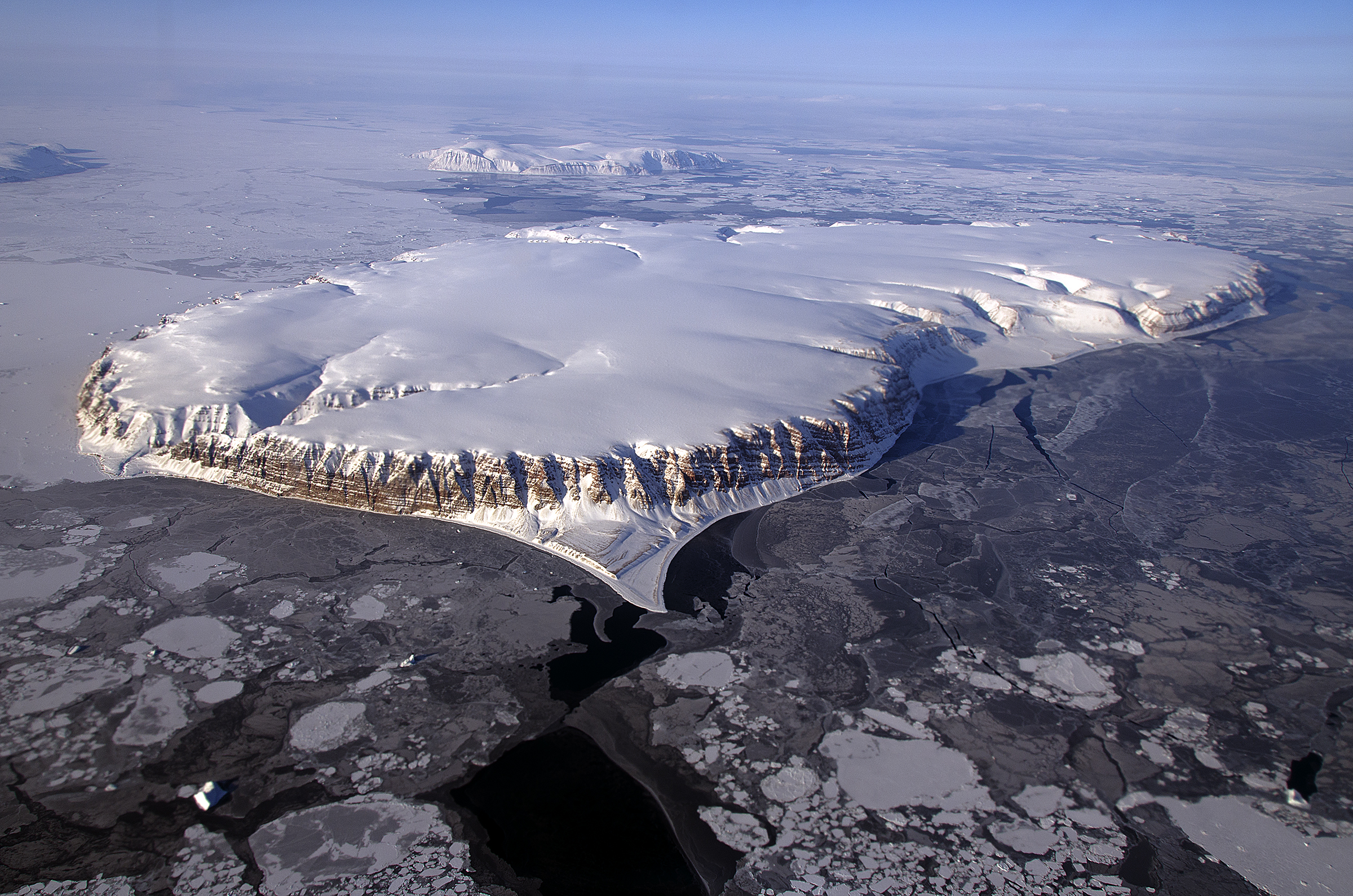 This image of Saunders Island and Wolstenholme Fjord in Greenland with Kap Atholl in the background was taken during an Operation IceBridge survey flight in April, 2013. Sea ice coverage in the fjord ranges from thicker, white ice seen in the background, to thinner grease ice and leads showing open ocean water in the foreground. In March 2013, NASA's Operation IceBridge scientists began another season of research activity over Arctic ice sheets and sea ice. IceBridge, a six-year NASA mission, is the largest airborne survey of Earth's polar ice ever flown. It will yield an unprecedented three-dimensional view of Arctic and Antarctic ice sheets, ice shelves and sea ice. These flights will provide a yearly, multi-instrument look at the behavior of the rapidly changing features of the Greenland and Antarctic ice.